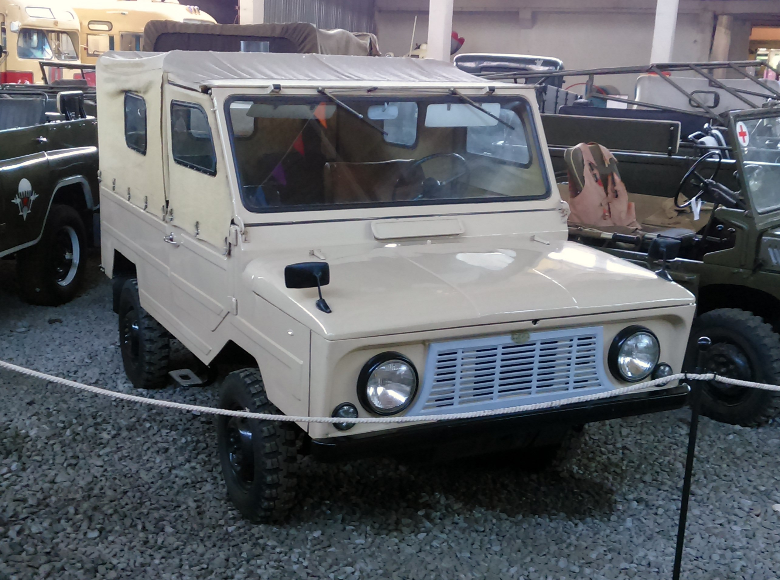 LuAZ-969 in Moscow museum of transport. Early version of the model, with longer front clip.